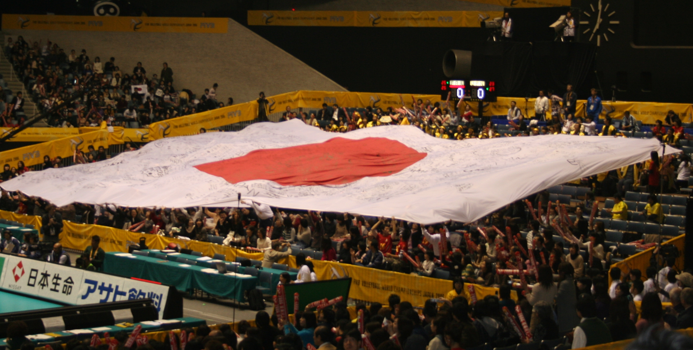 Volleyball World Cup 2006 in Japan. Audience in Yoyogi sports center, Tokyo, waving the Japanese flag during the match against France